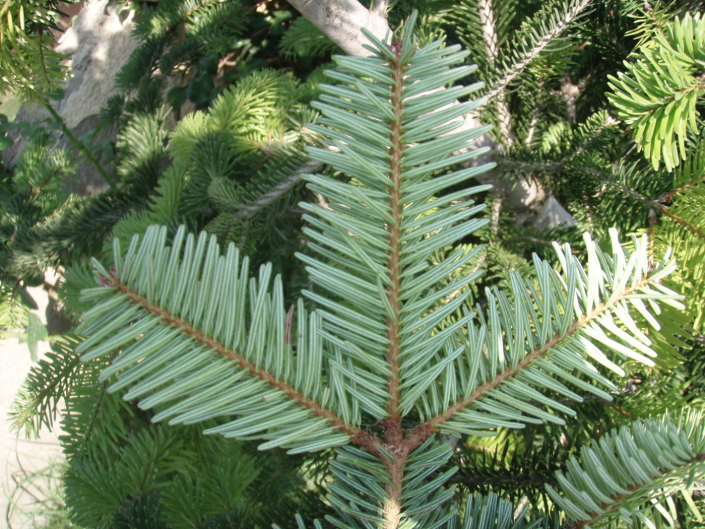 Underview of foliage - Uludağ Göknarı (Turkish Fir) - Abies nordmanniana subsp. bornmuelleriana